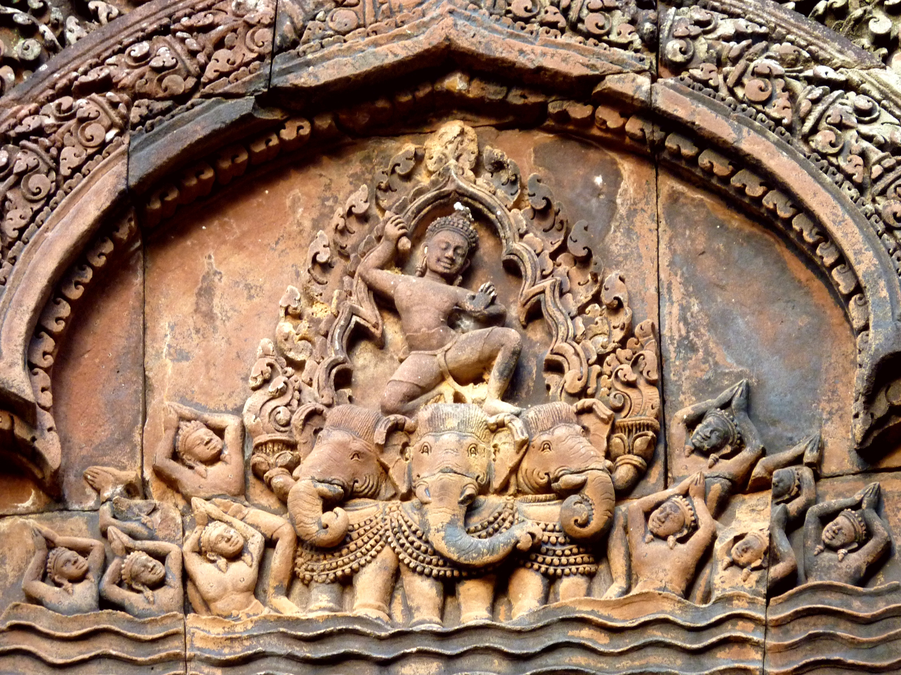 Banteay Srei Temple Indra on Airavata, Cambodia